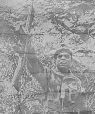 Photograph of Nathanael Mbumba used on a propaganda poster of the FLNC, captured by French paratroopers during the battle of Kolwezi (May 1978)